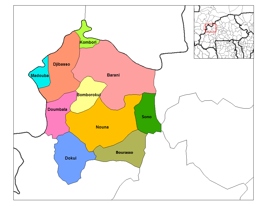 This map has been uploaded by Osiris fancy from to enable the Wikimedia Atlas of the World. Original uploader to was Rarelibra. Osiris fancy is not the creator of this map. Licensing information is below. Map of the departments of Kossi province in Burkina Faso. Created by Rarelibra 03:24, 30 September 2006 (UTC) for public domain use, using MapInfo Professional v8.5 and various mapping resources.